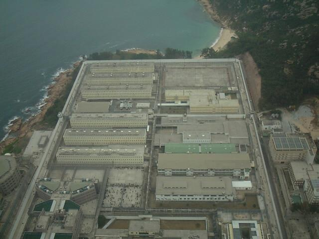 Description= Bird's view Stanley Prison. Source=self-made Author= User:Heli Pauline